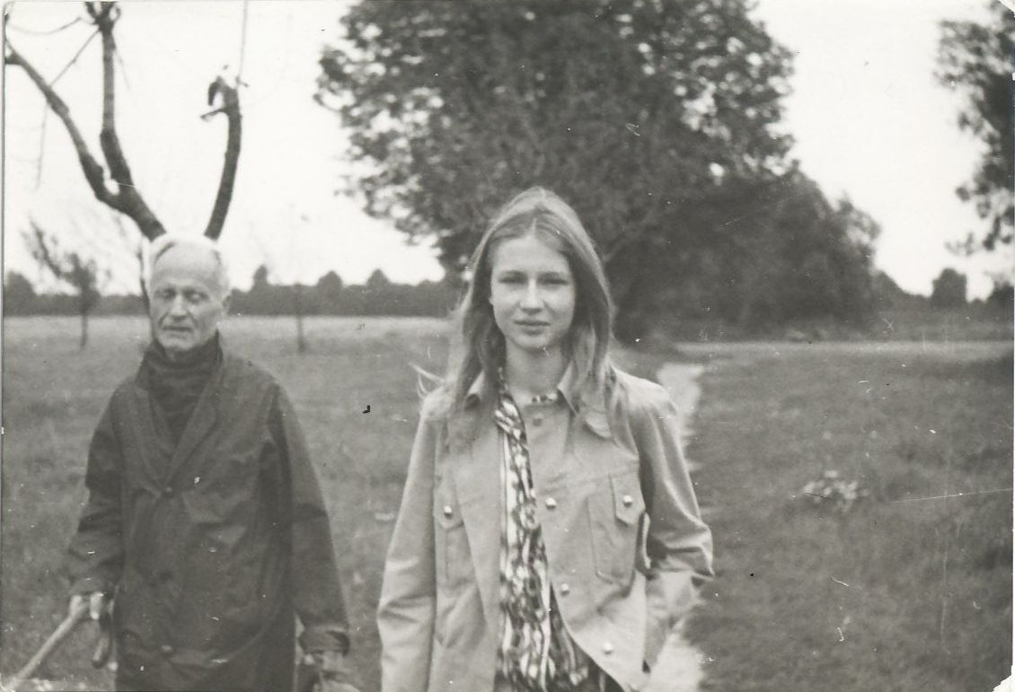 Polish poets: Julian Przyboś and his daughter Uta Przyboś in Obory.